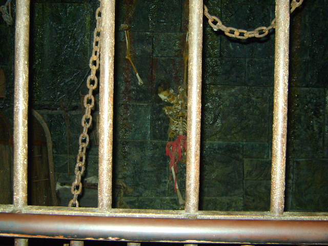 Dark cell.